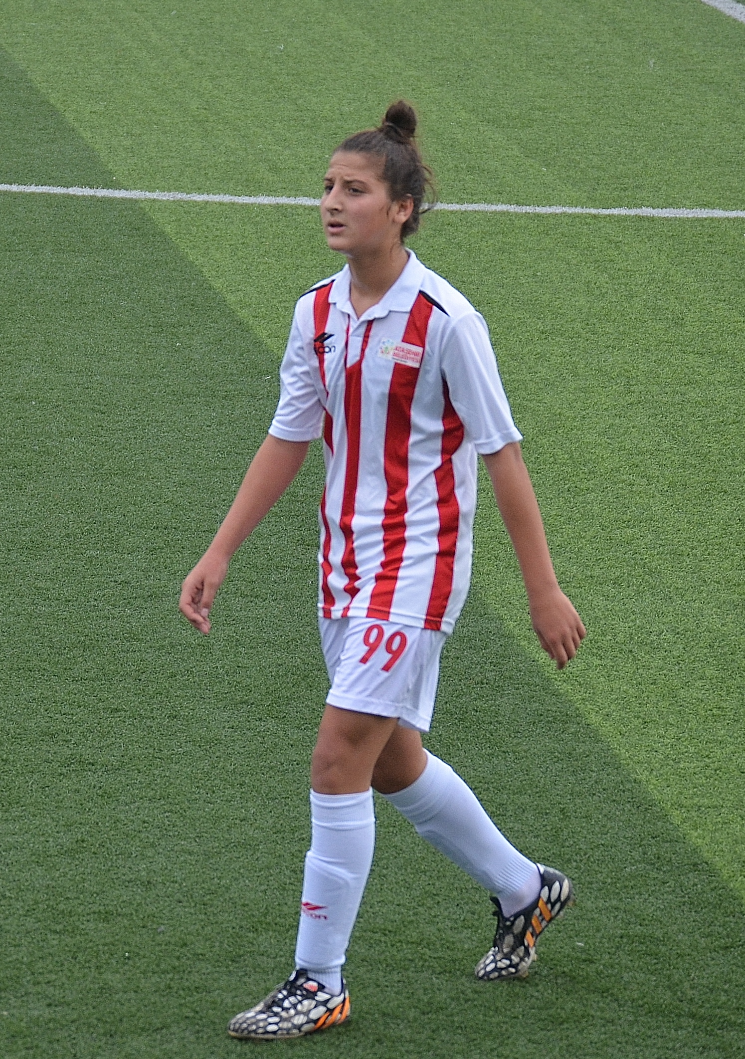 Kader Hançar for Ataşehir Belediyespor in the 2014-15 season